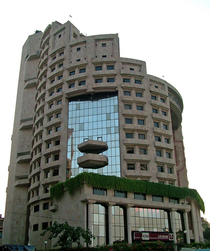 Delhi